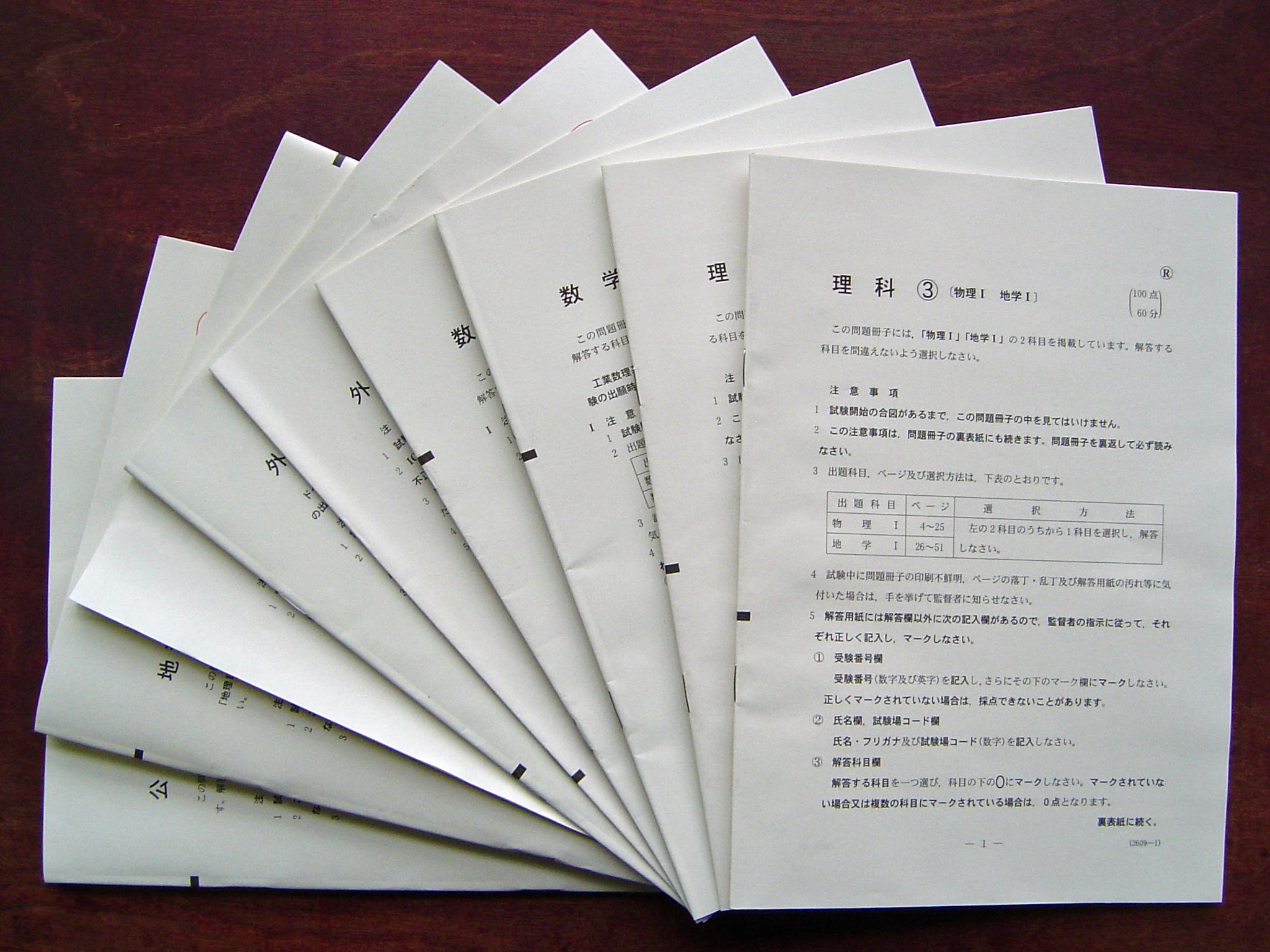 The booklets of questions used in 2007 (National Center Test for University Admissions)